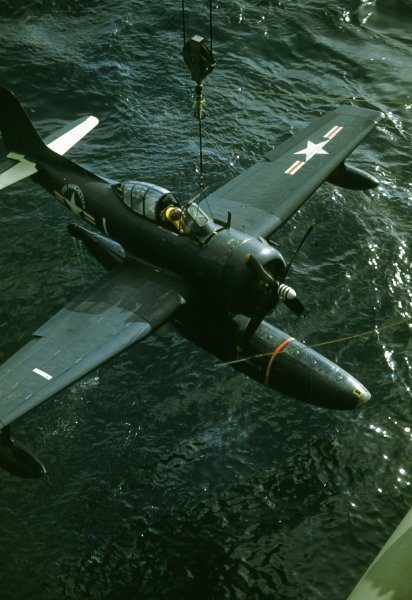 A U.S. Navy Curtiss SC-1 Seahawk reconnaissance floatplane is being hoisted aboard the light cruiser USS Manchester (CL-83). Manchester was part of the task group around the aircraft carrier USS Midway (CVB-41) during a deployment to the Mediterranean Sea from 29 October 1947 to 11 March 1948.